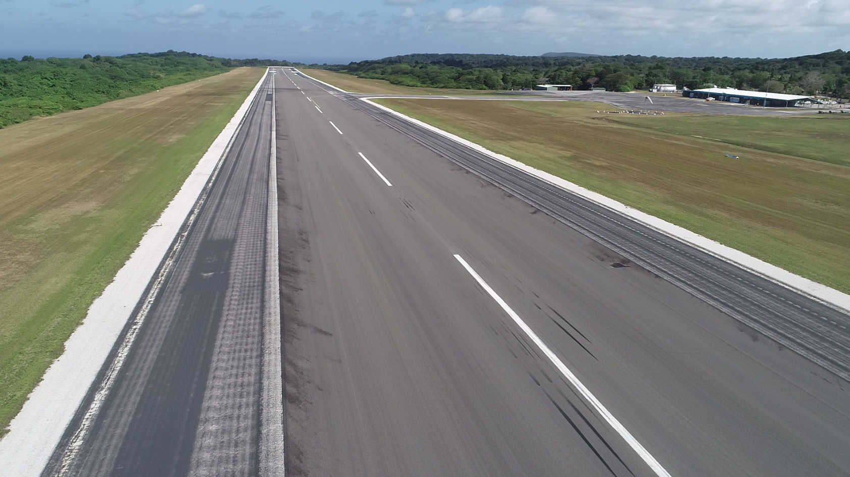 Christmas Island Airport Runway